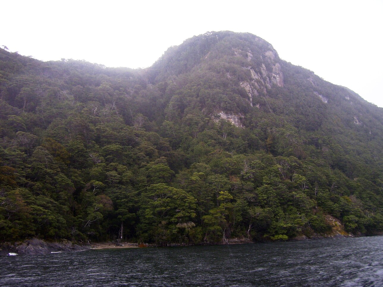 The Landing at Pomona Island in Lake Manapouri